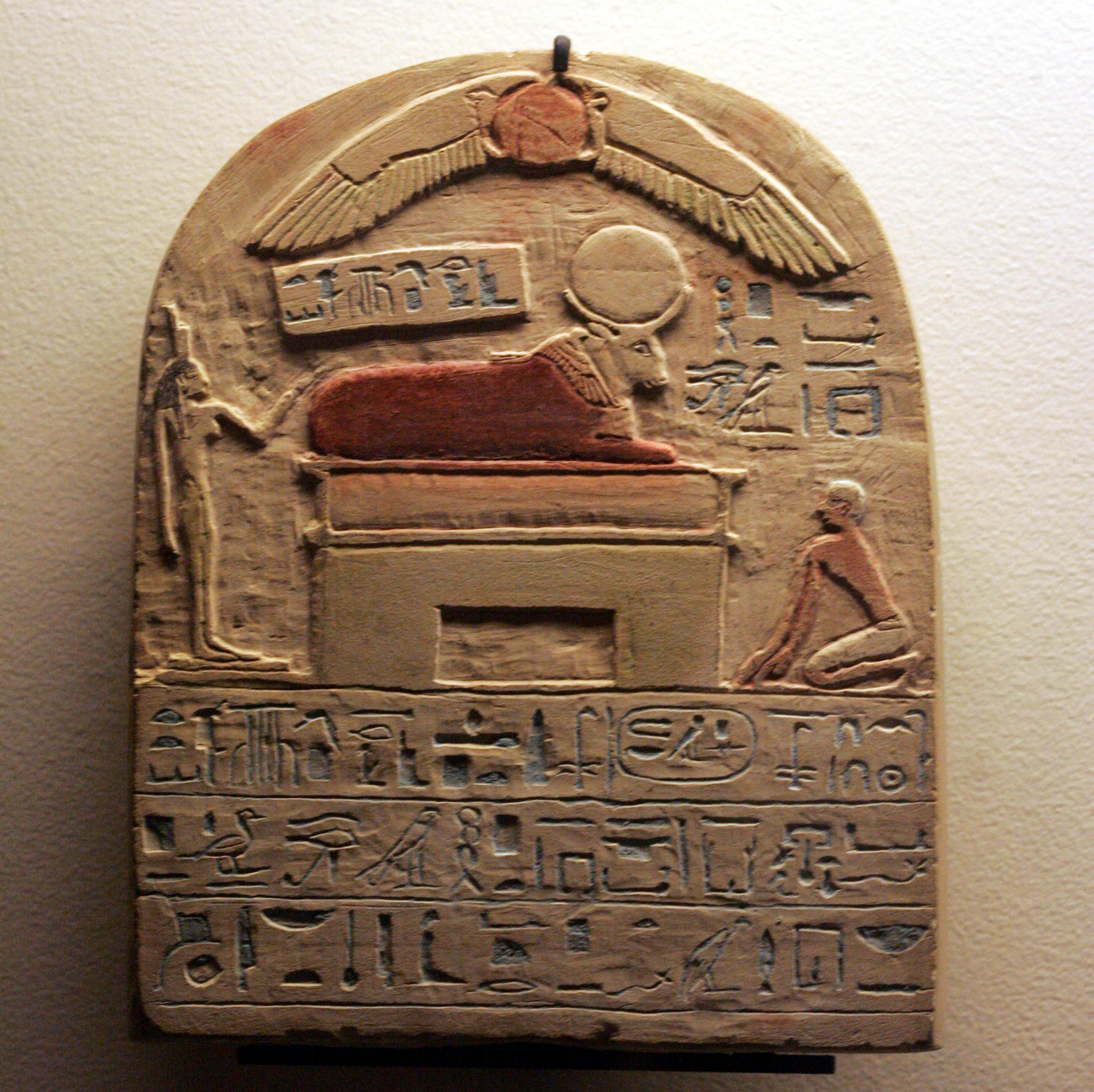 Stele dedicated by the doorman of Horudja temple to the God-bull Apis.